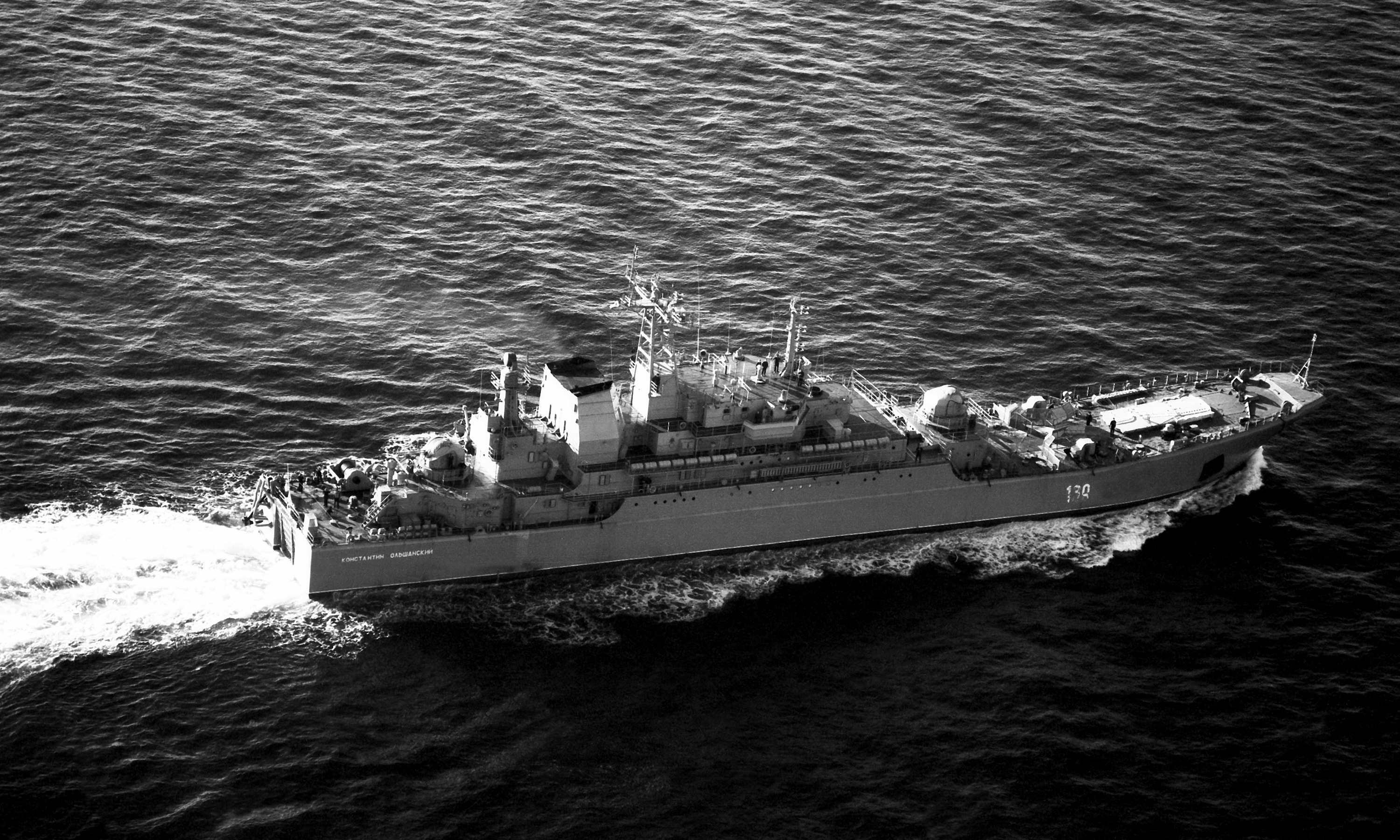 A starboard view of a Soviet BDK Project 775 (NATO - Ropucha class tank landing ship) Kostantin Olshanskiy underway.